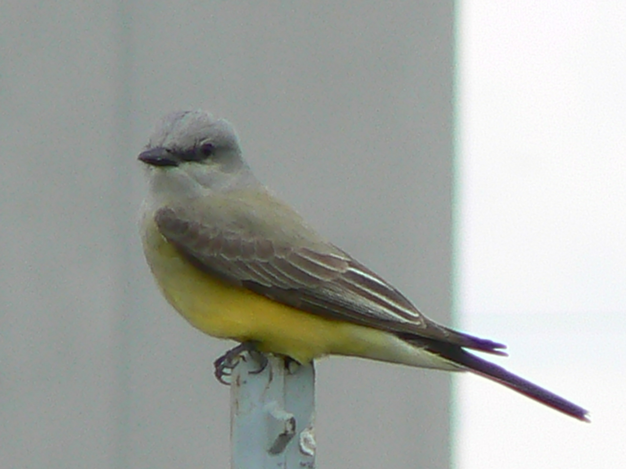 Western Kingbird Tyrannus verticalis